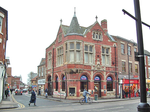 Selby Town Old Council Offices. The building has had several uses since the council moved out. Timothy White's Chemist, Building Society and a few more. It is now a Public Bar